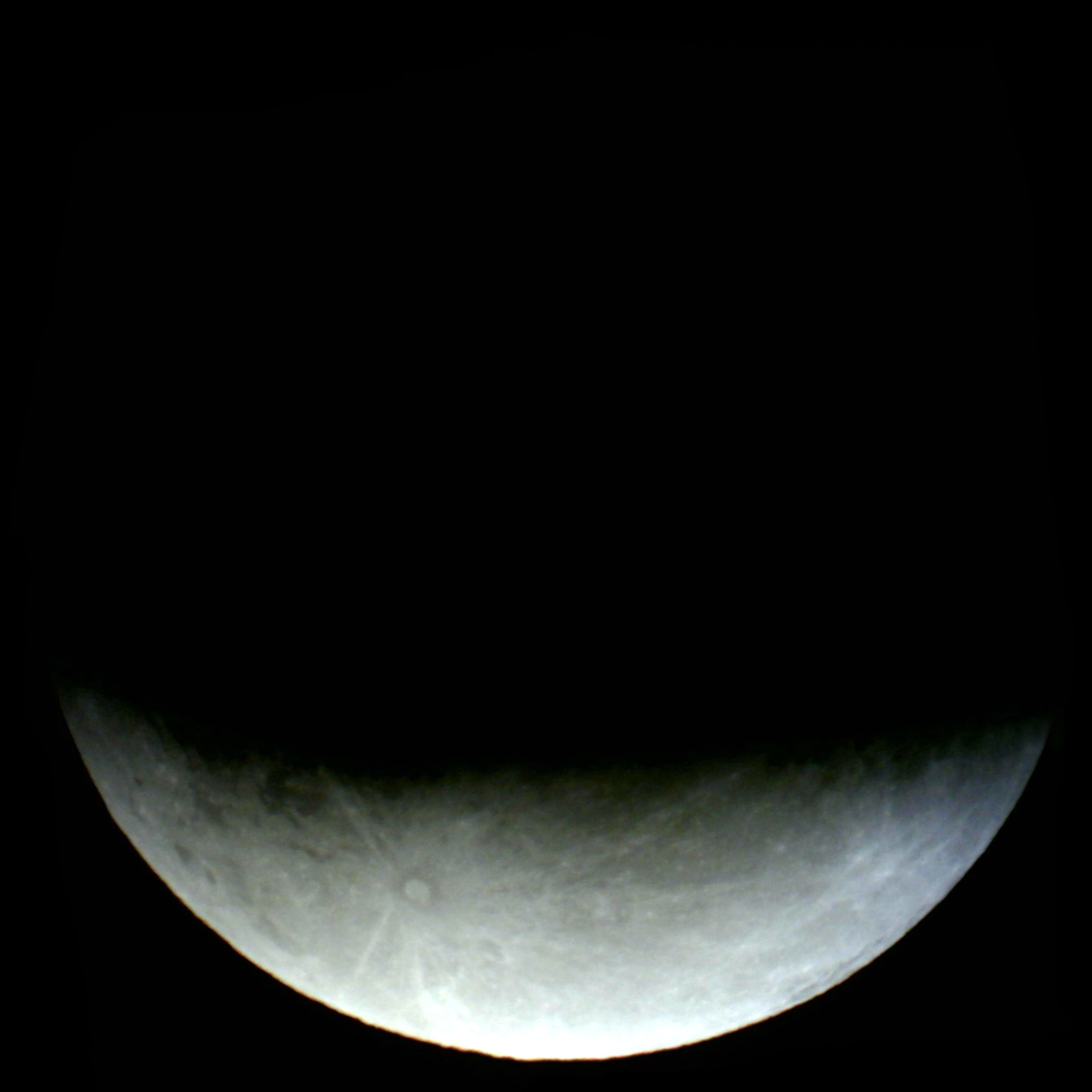 Partial Lunar Eclipse seen from Tilehurst, Reading, England, at 22:30 BST.